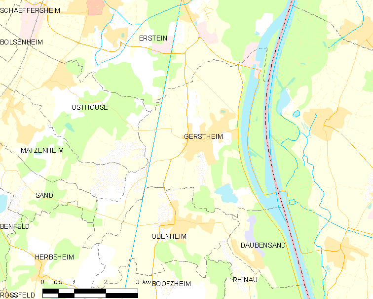 Map of French municipality